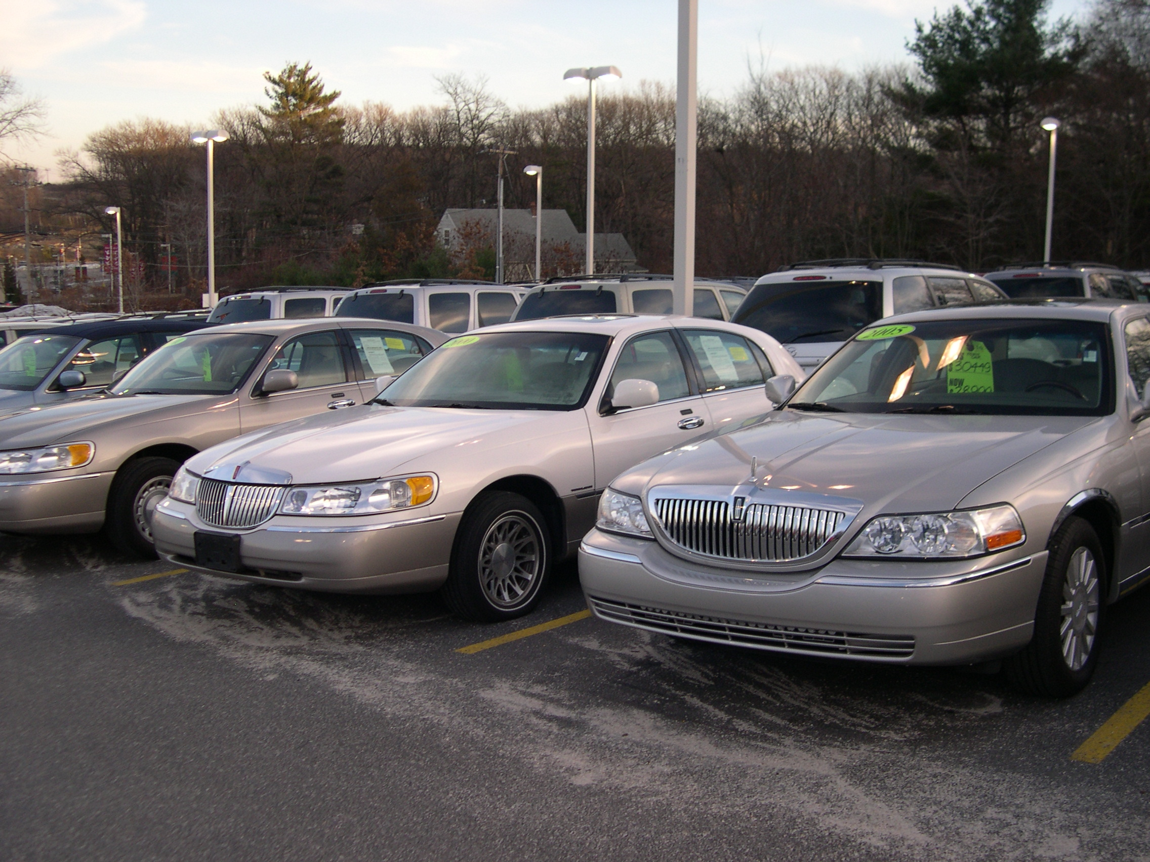 2001 and 2005 Lincoln Town Cars